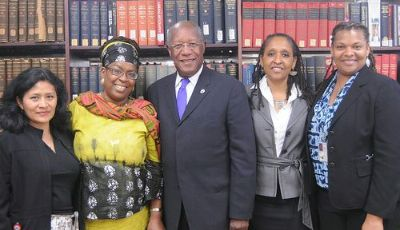 The Race, Ethnicity, and Social Inclusion Unit and Office of Caribbean Affairs of the Bureau of Western Hemisphere Affairs co-hosted a special dialogue that linked the United Nations' and Organization of American States' designation of 2011 as the International Year for African Descent with Caribbean American Heritage Month. From left to right [note ordering in State Dept. caption was incorrectly reversed]: Deputy Assistant Secretary Fabiola Rodriguez-Ciampoli; Dr. Claire Nelson of the Institute for Caribbean Studies; Dr. Howard Dodson from the Schomburg Center for Research on Black Culture; Director Makila James; Senior Advisor Zakiya Carr Johnson at the Special Dialogue: International Year for People of African Descent & Caribbean-American Heritage Month on June 8, 2011, in the Ralph Bunche Library at the Department of State. State Dept Image by Dan Taylor / Jun 08, 2011